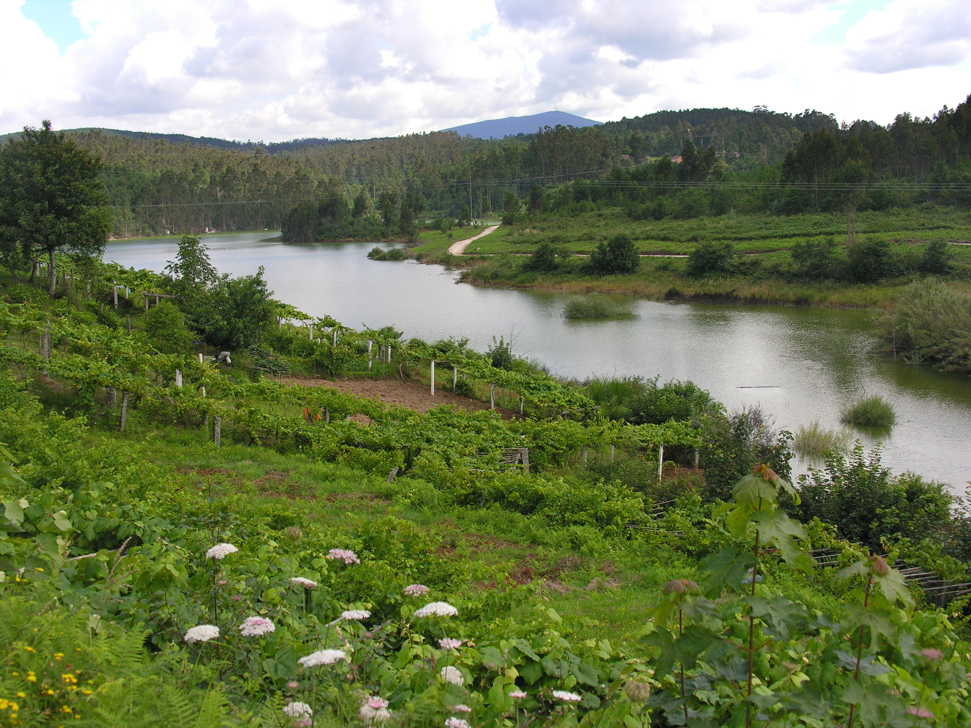 Umia River, Paradivas, Caldas de Reis. Galicia